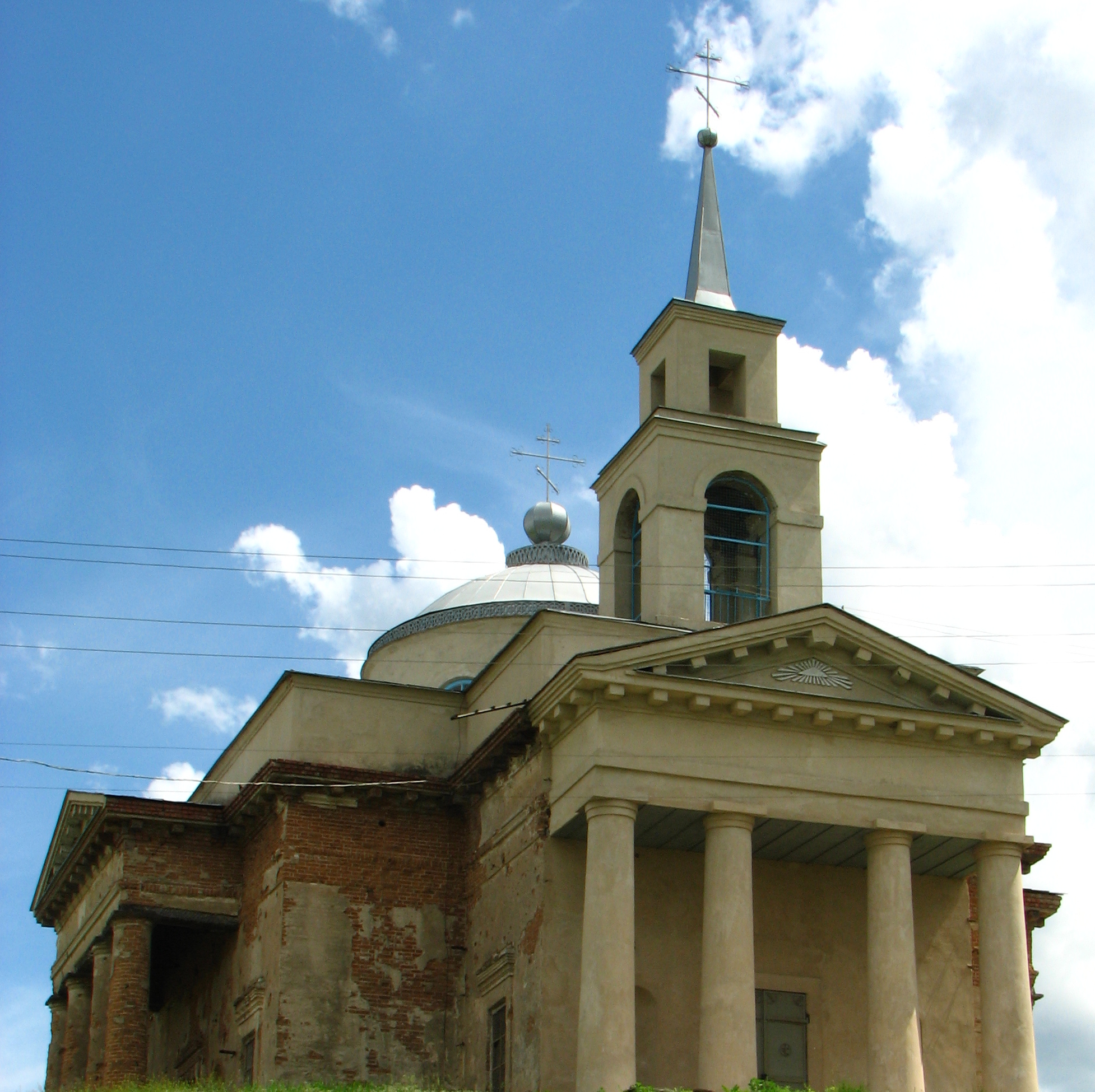 Благовіщинська церква у Веселій Горі.